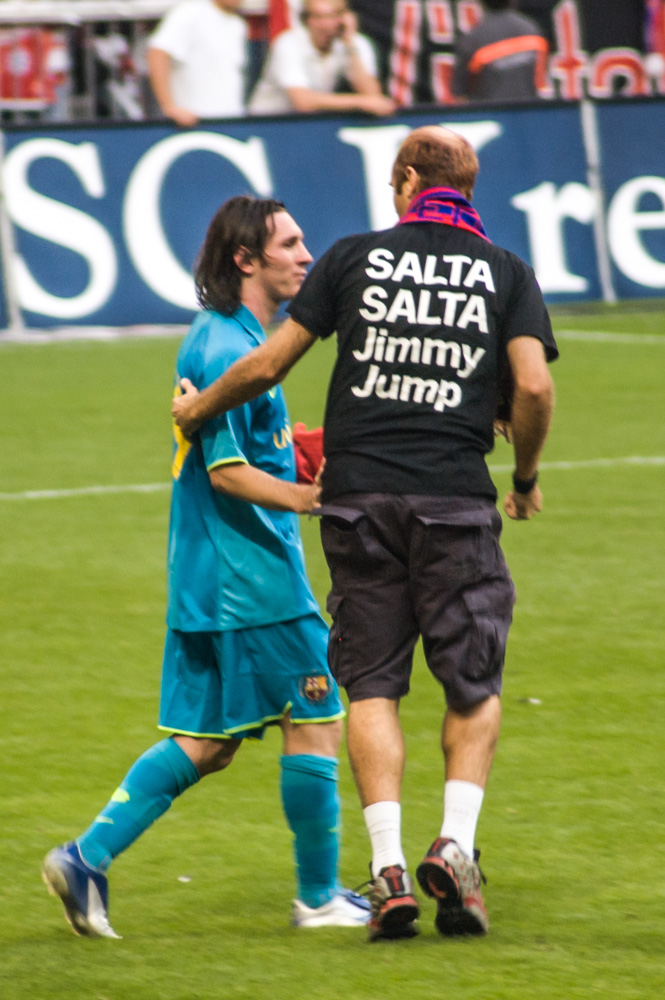 Jaume Marquet i Cot, known as Jimmy Jump, a streaker in Munich during a game between FC Bayern München and FC Barcelona.